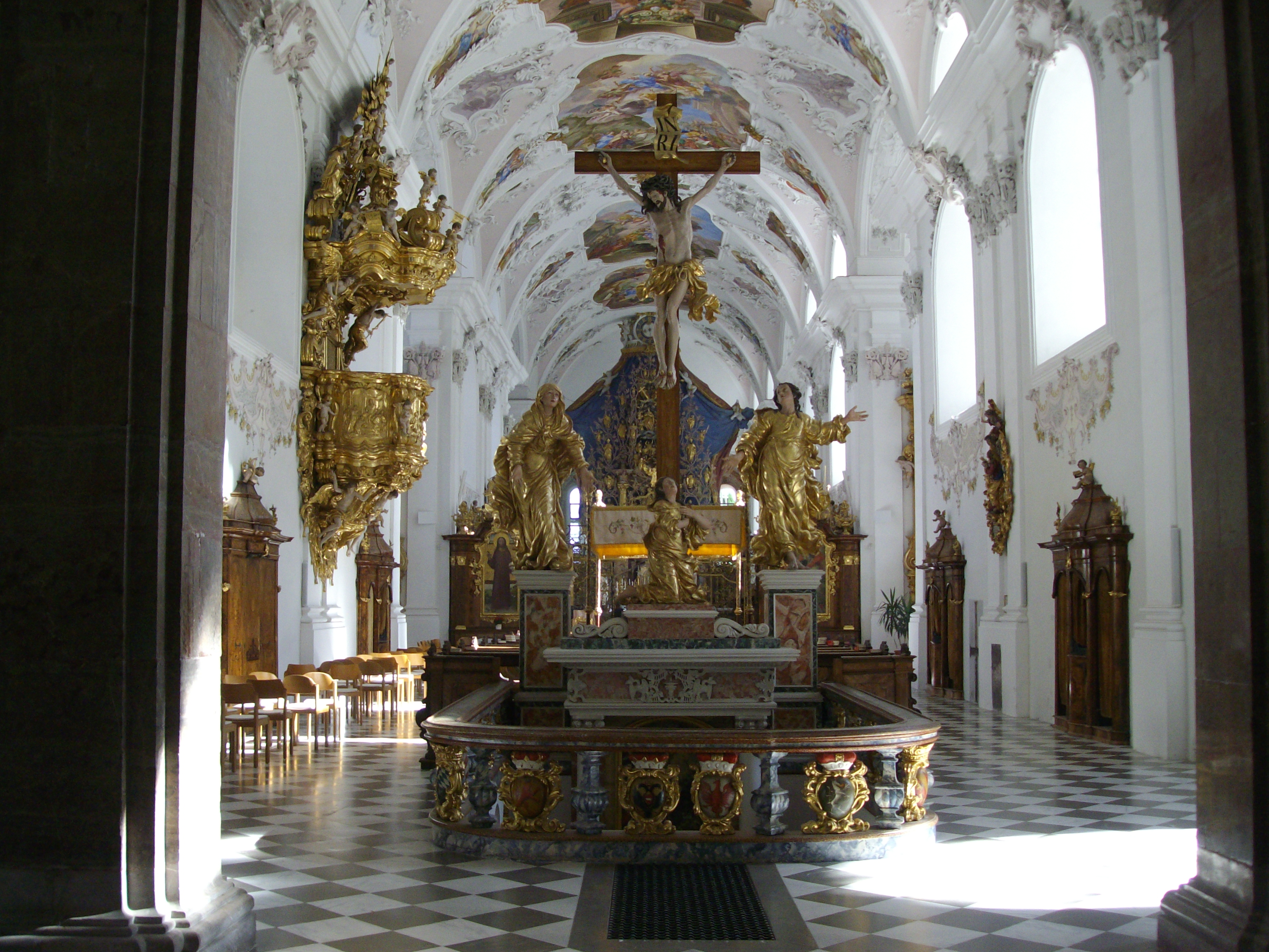 Stift Stams, the church inside with only one narrow nave.